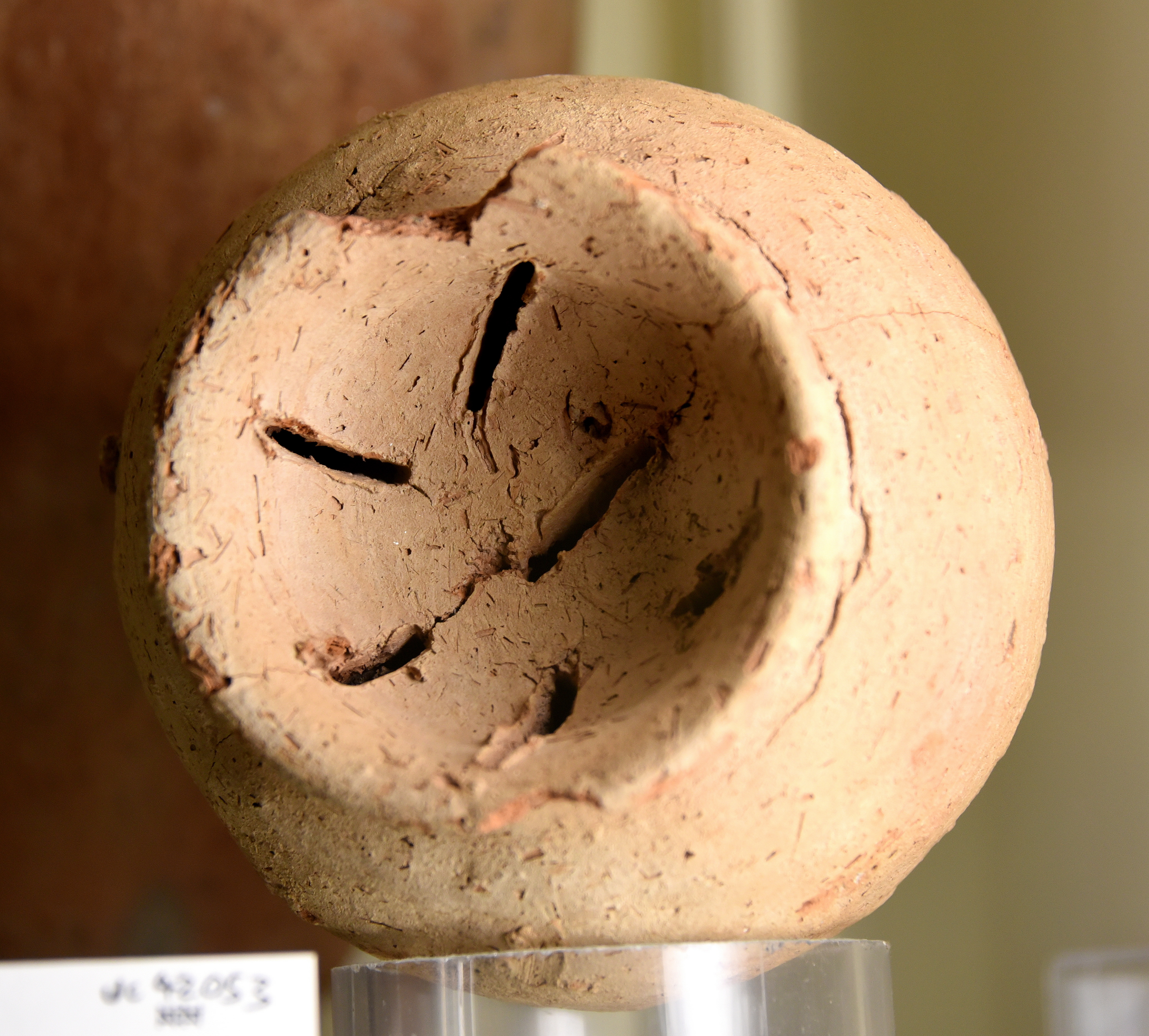 Pottery jar with integral strainer. 1st Dynasty, Early Dynastic Period. From Egypt. The Petrie Museum of Egyptian Archaeology, London. With thanks to the Petrie Museum of Egyptian Archaeology, UCL.